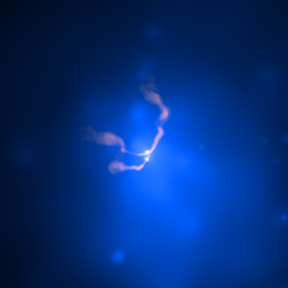 This composite X-ray (blue)/radio (pink) image of the galaxy cluster Abell 400 shows radio jets immersed in a vast cloud of multimillion degree X-ray emitting gas that pervades the cluster. The jets emanate from the vicinity of two supermassive black holes (bright spots in the image). These black holes are in the dumbbell galaxy NGC 1128, which has produced the giant radio source, 3C 75.